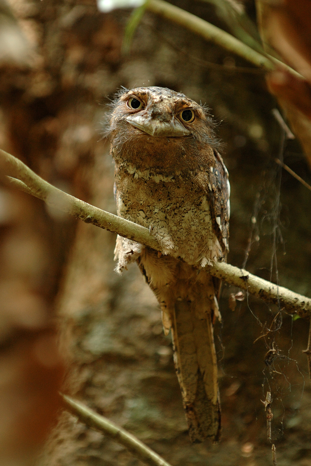 This is one of the most elusive birds in the Indian jungles. Frogmouths have one of the best camouflages in the bird world and since they are largely nocturnal, they rest inside thick forest clumps most of the day.